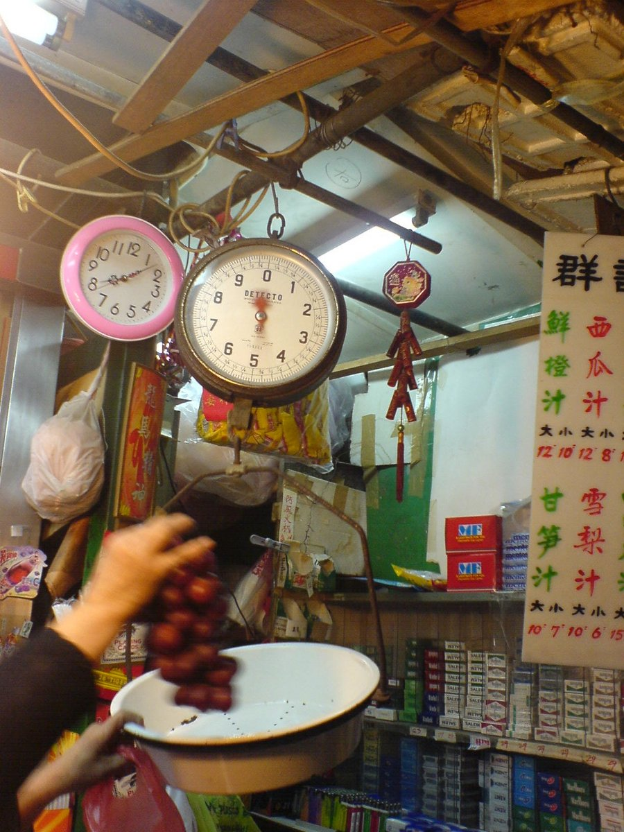 Photograph of weighing scales in use in Hong Kong, clearly showing imperial units in active commercial use.